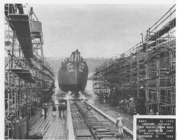 Launch of the U.S. Navy ocean escort USS Knox (DE-1052) at the Todd Shipyard Corporation, Seattle, Washington (USA), on 19 November 1966.